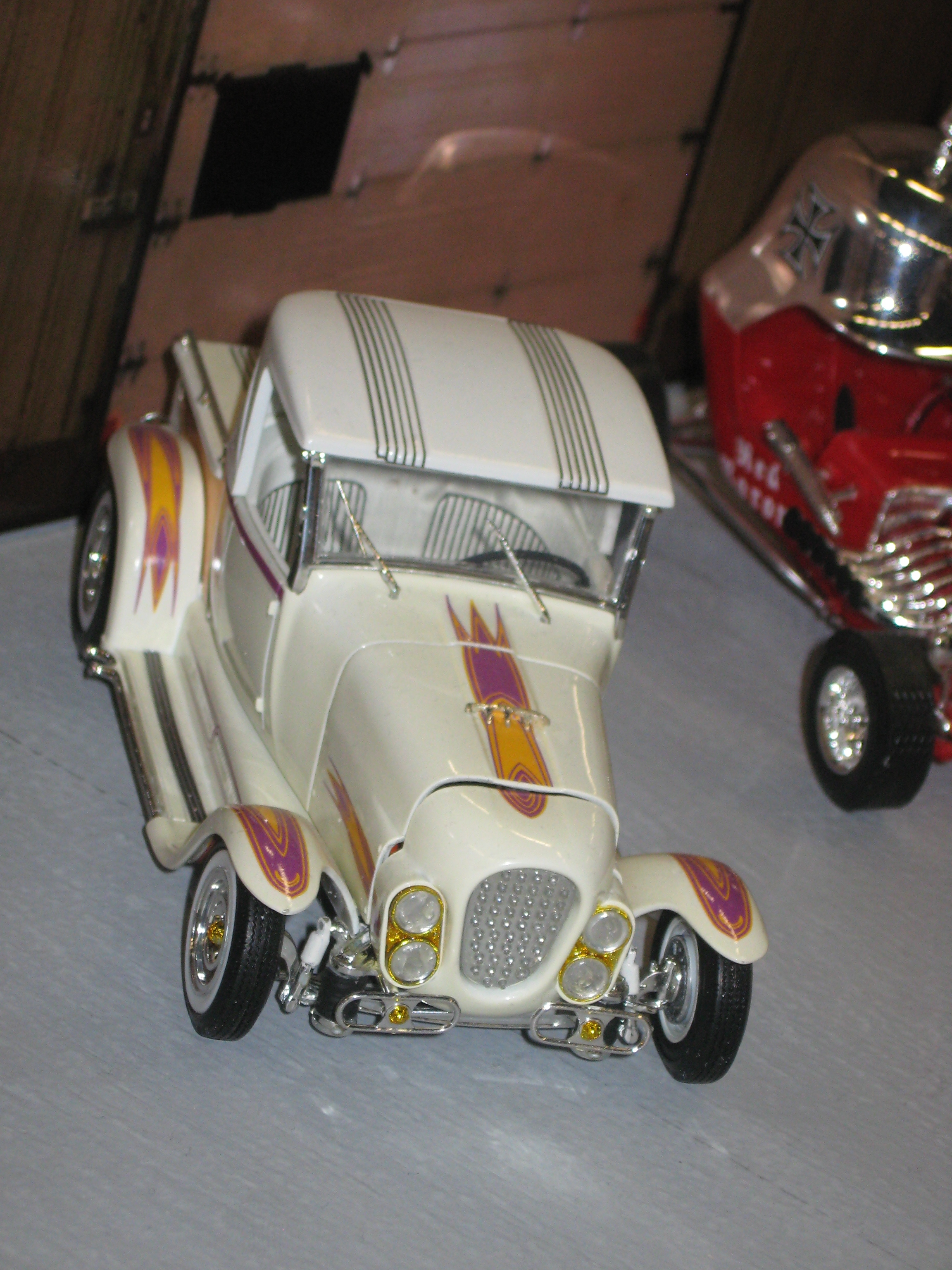 model kit of the classic Barris custom 'Ala Kart', shot at Draggins 50h Anniversary show, Prairieland Exhibition building, 3 April 2010